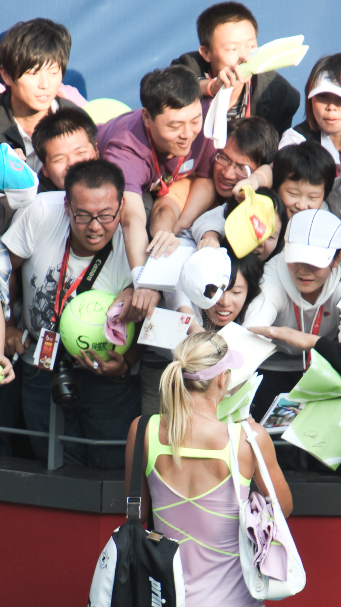 Maria Sharapova at the 2009 China Open